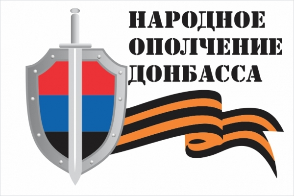 Self-defense of Donbass flag.